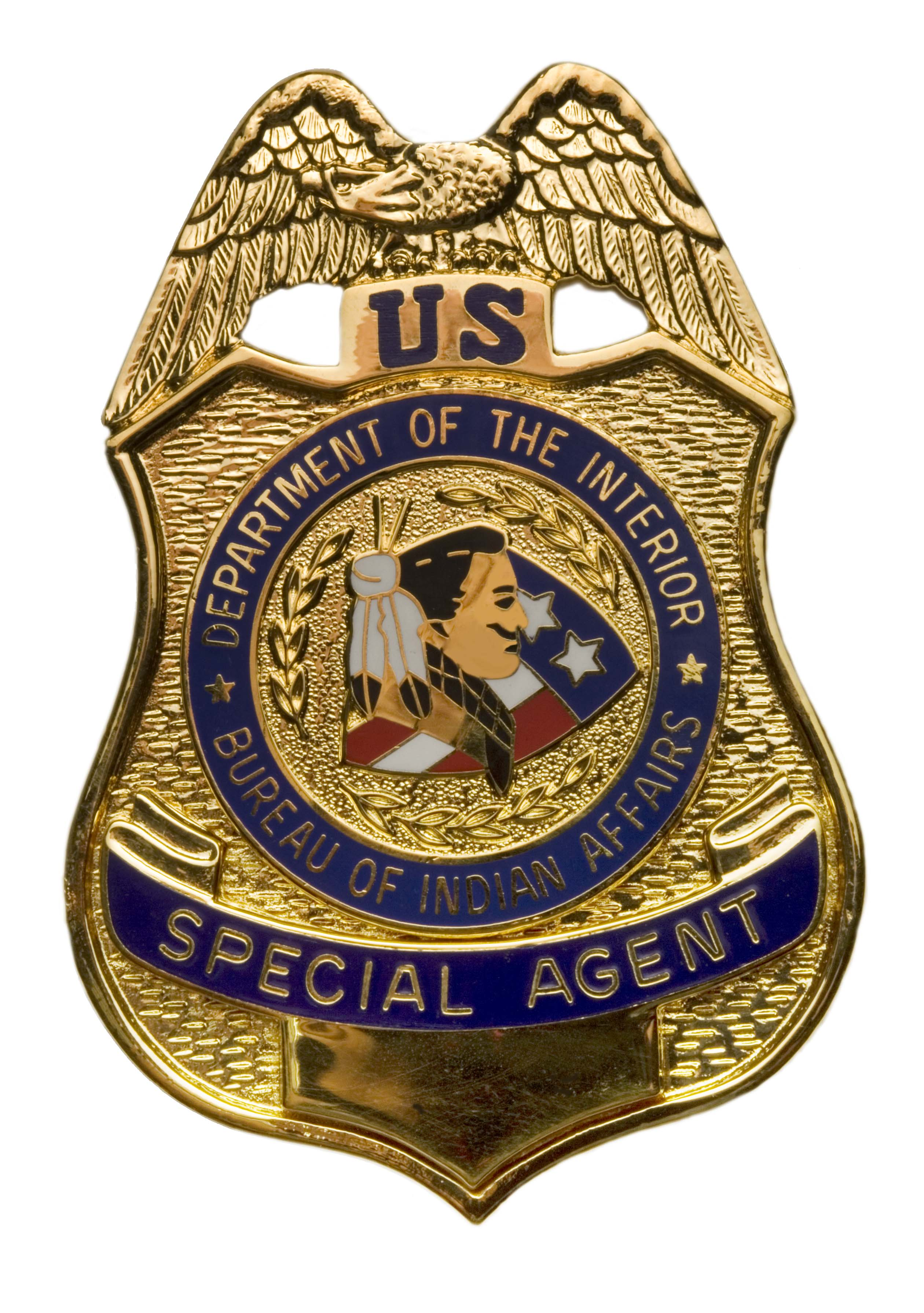 Bureau of Indian Affairs Police special agent badge